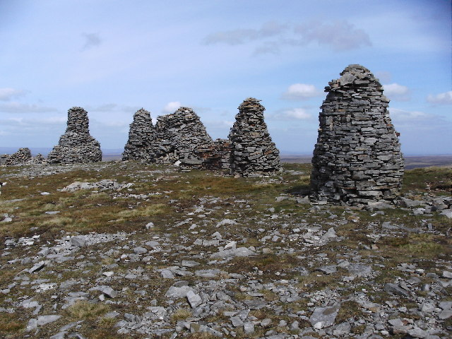 Cairns on the summit of Nine Standards Rigg